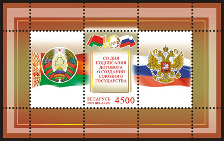 Stamp of Belarus